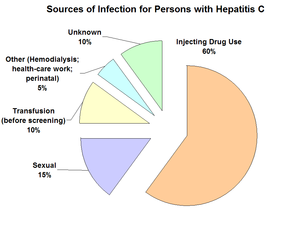 Exploded piechart of Hepatitis C infection by source based on CDC data.